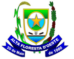 Coat of arm of the city of Alta Floresta d'Oeste, Rondônia, Brazil.